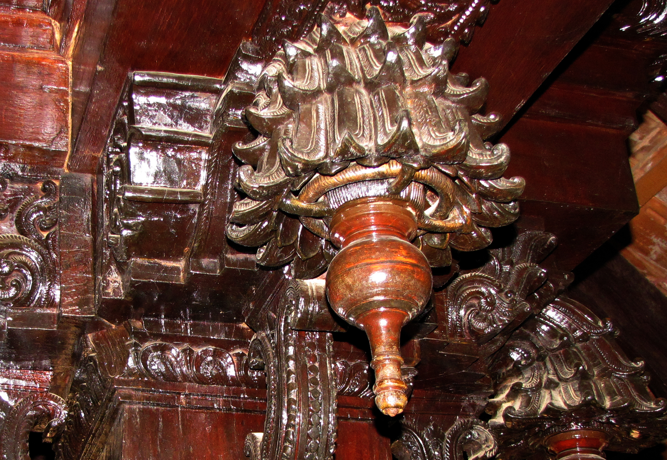 Sculptre on Single Piece of wood At Padmanabhapuram palace